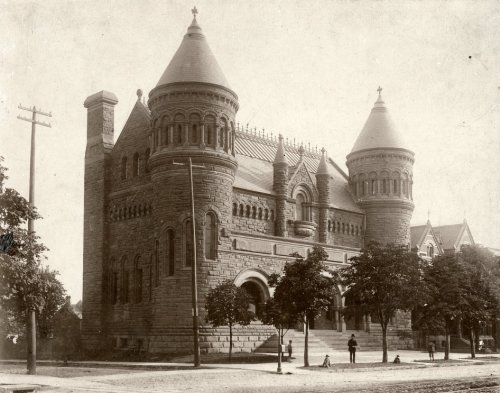 The original building. Built 1887. Demolished 1960. Random Rough-Faced Ashlar. Richardsonian Romanesque Style.